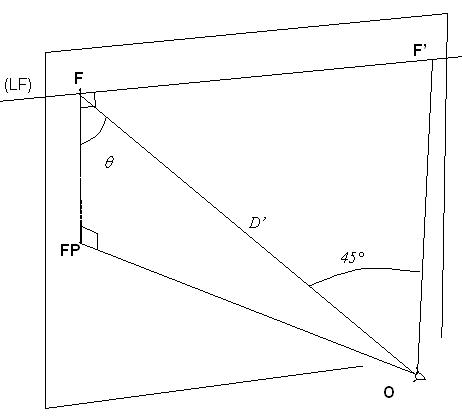 distance d'un plan